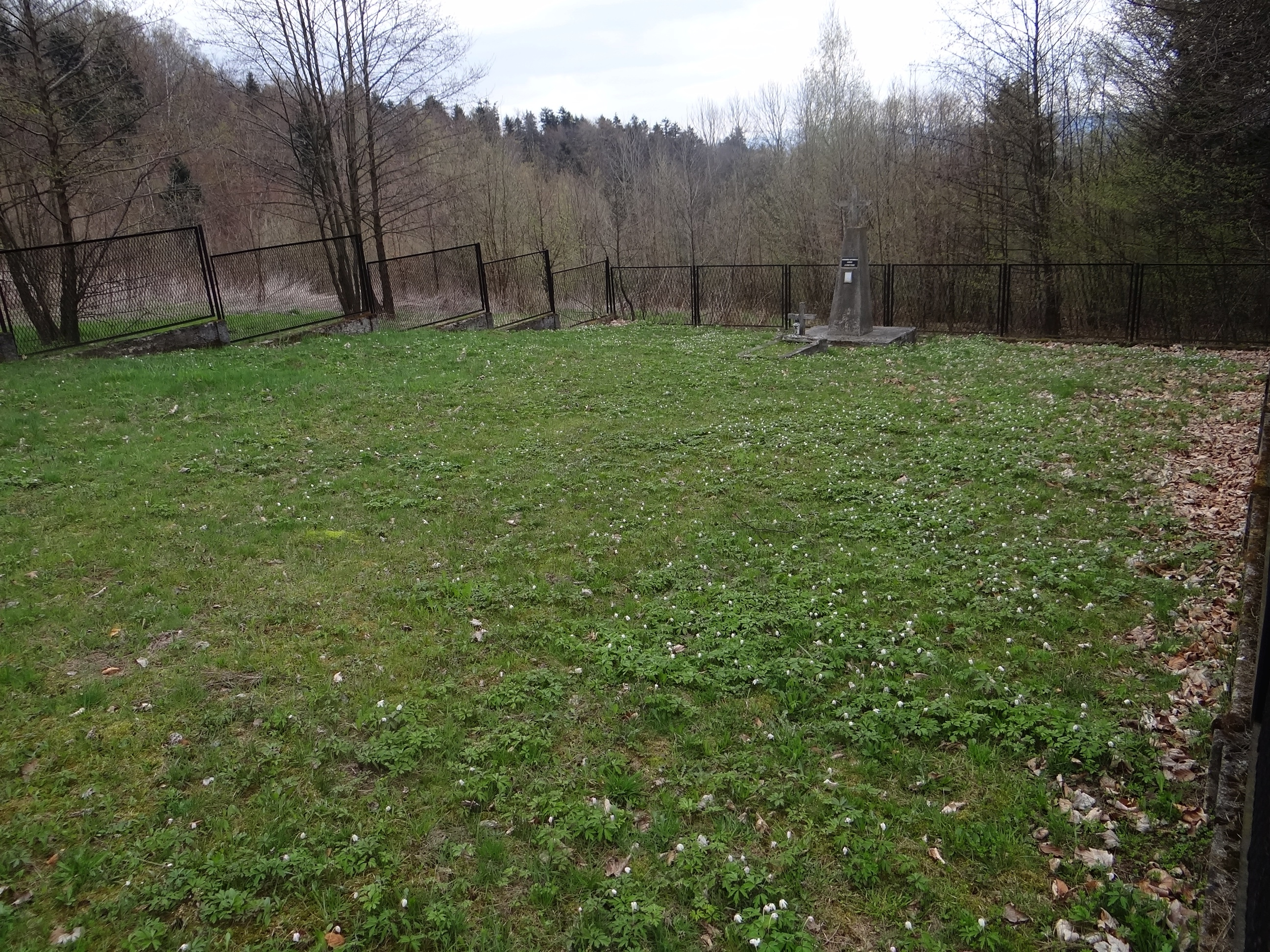 World War I Cemetery nr 182 - Siemiechów